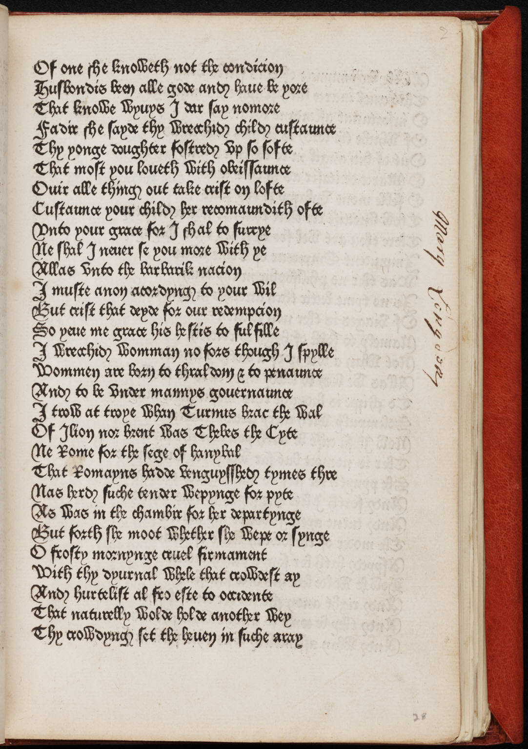 Page from "The Canterbury Tales," by Geoffrey Chaucer, printed at Westminster by William Caxton, 1477. Bearing the autograph of Mary Longdery in the margin.